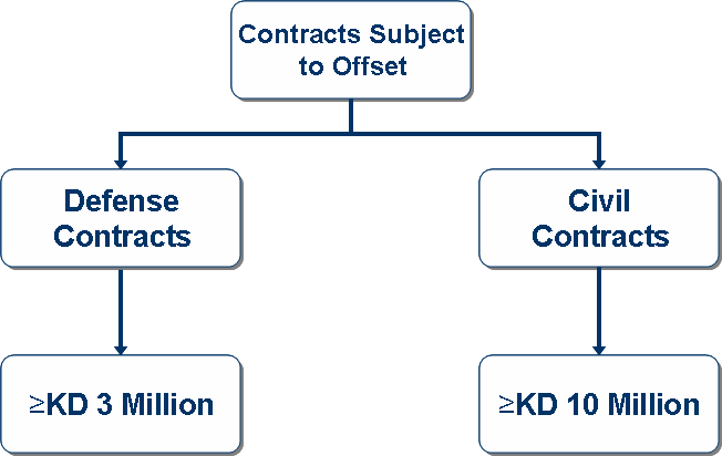 General Principle 1